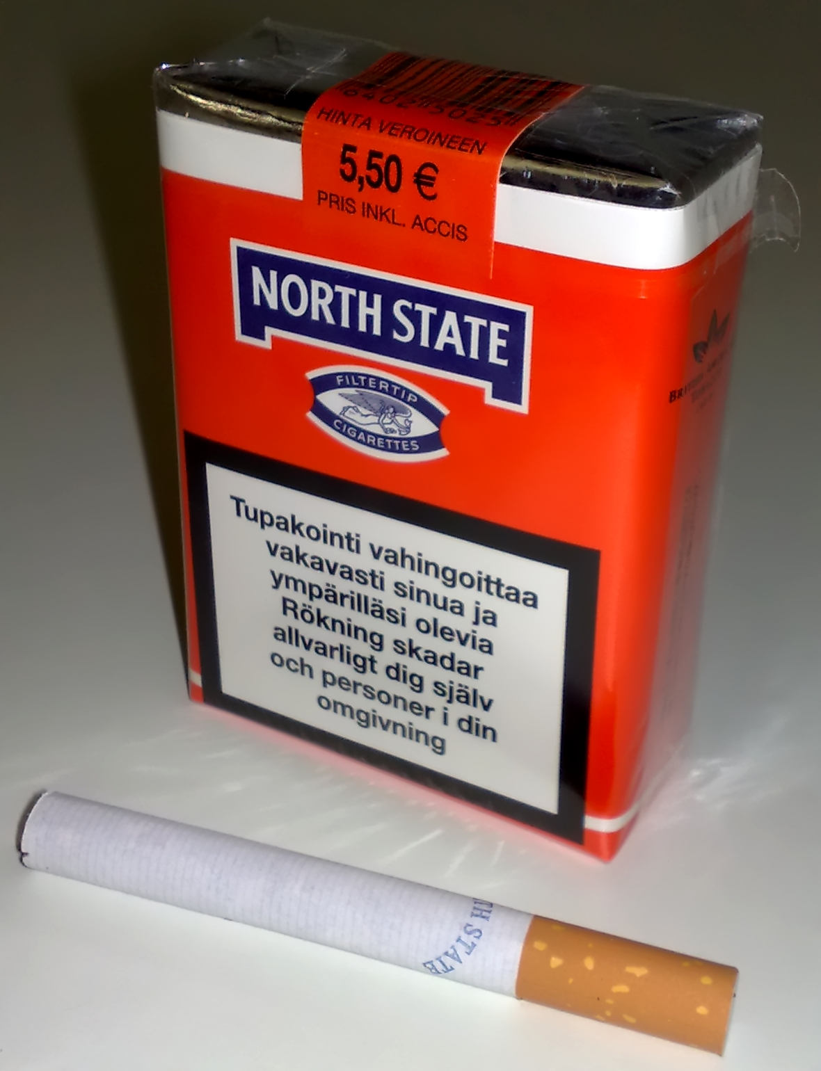 North State cigarette pack.